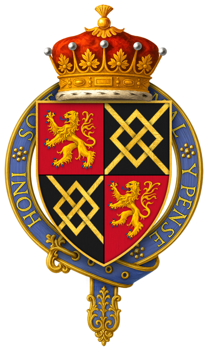 Sir William FitzAlan, 16th Earl of Arundel, KG